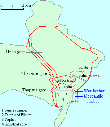 Plan of Carthage.